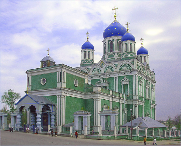 Yelets (Lipetsk oblast), Ascension cathedral in Yelets, Russia (1845-89, Konstantin Thon)